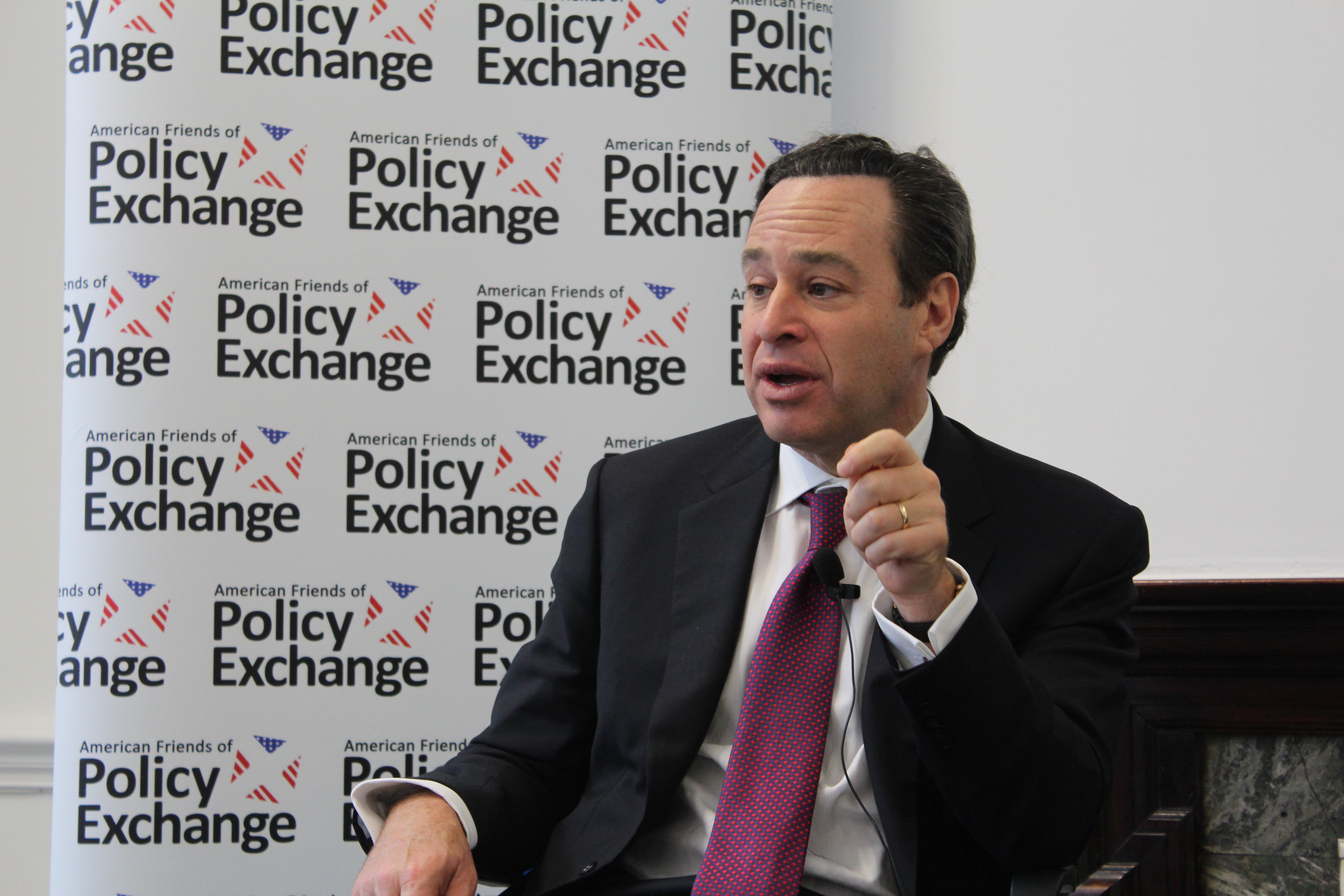 You can watch this event in full at